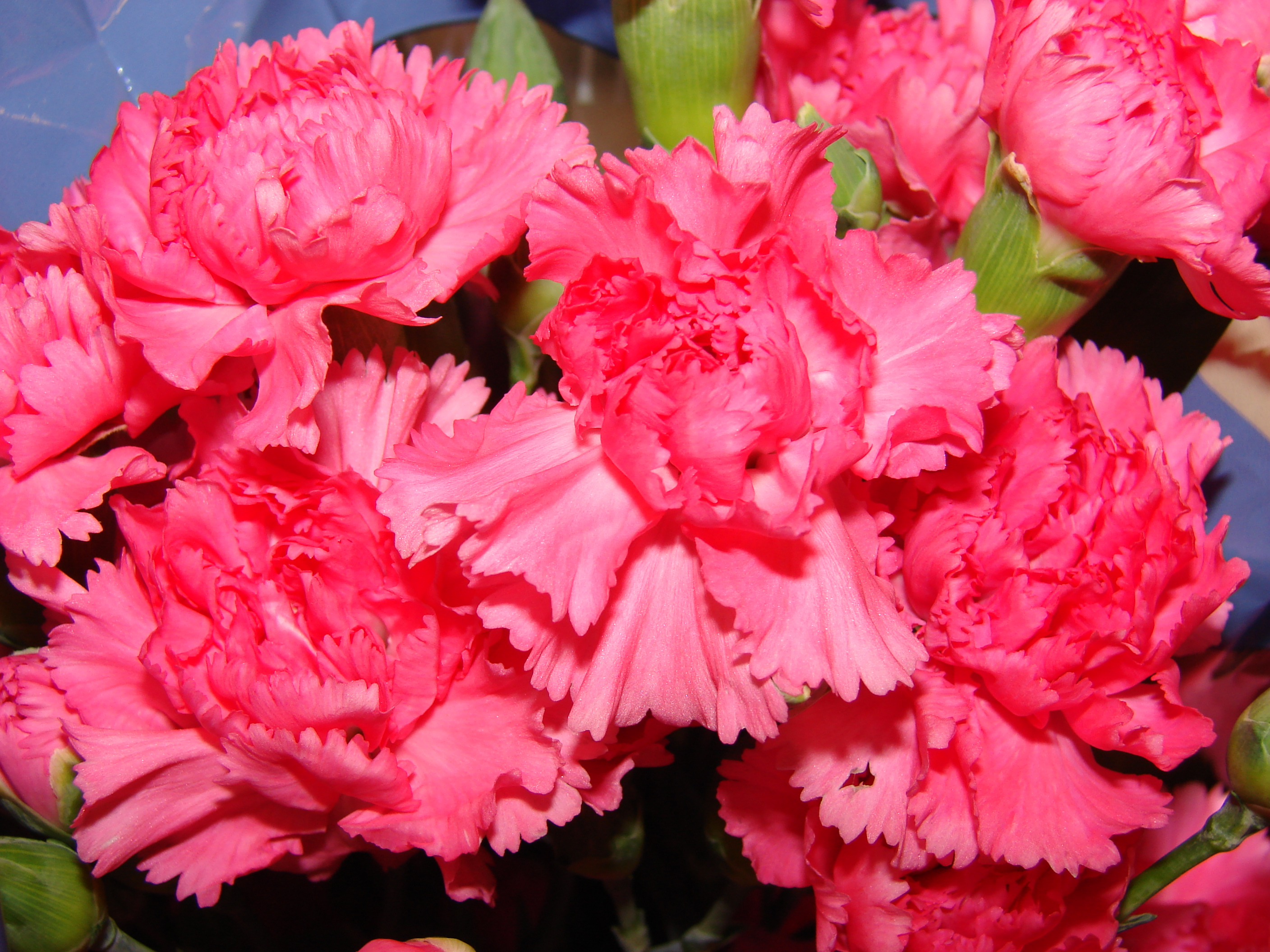 Dianthus caryophyllus (flowers bright pink). Location: Maui, Foodland Pukalani